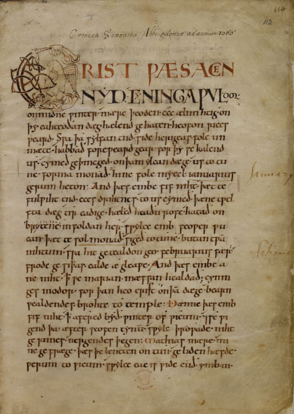 British Library MS Cotton Tiberius B I, f. 112r